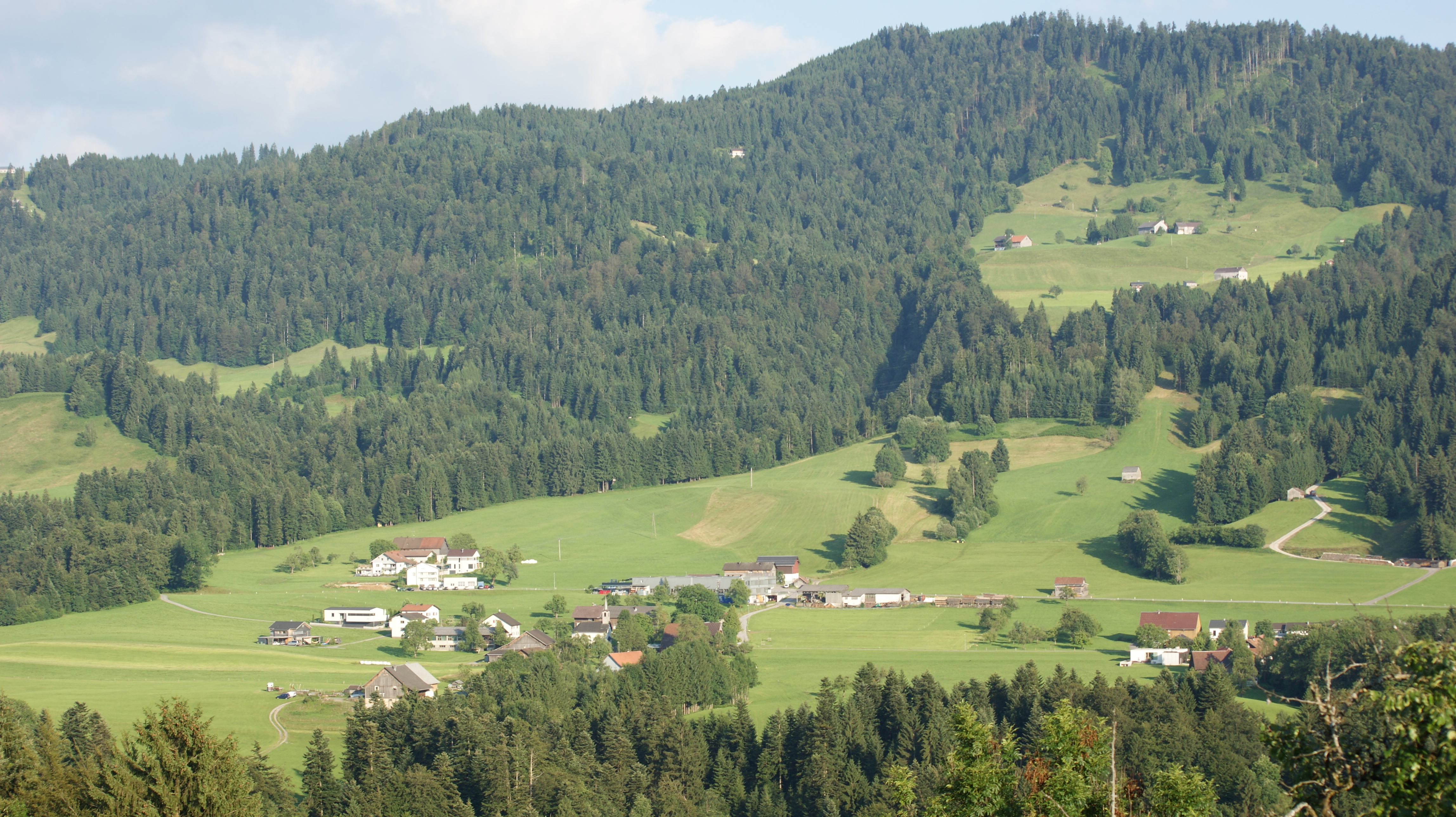 Hamlet Winsau in Dornbirn, Vorarlberg, Austria.